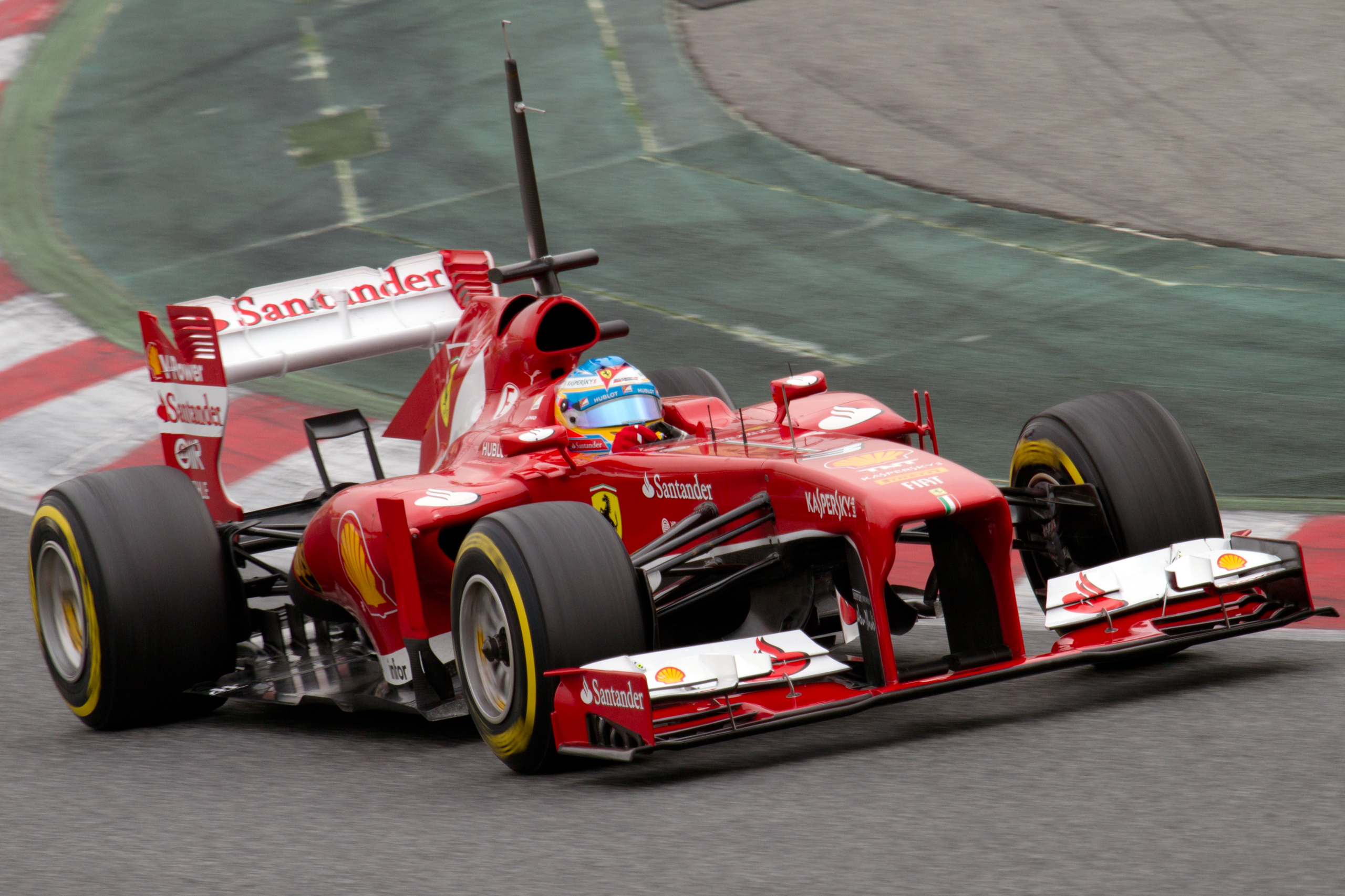 Formula One 2013 Catalonia test (19-22 February): Fernando Alonso (Ferrari)